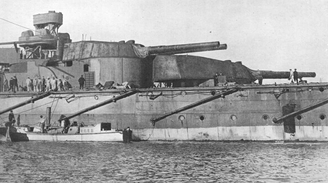 Photograph showing X and Y (aft) 13.5 inch gun turrets of British battleship HMS Thunderer.